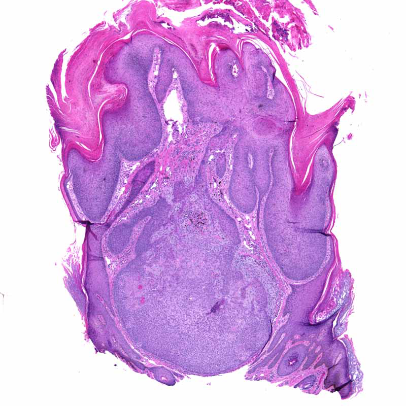 Tricholemmoma.